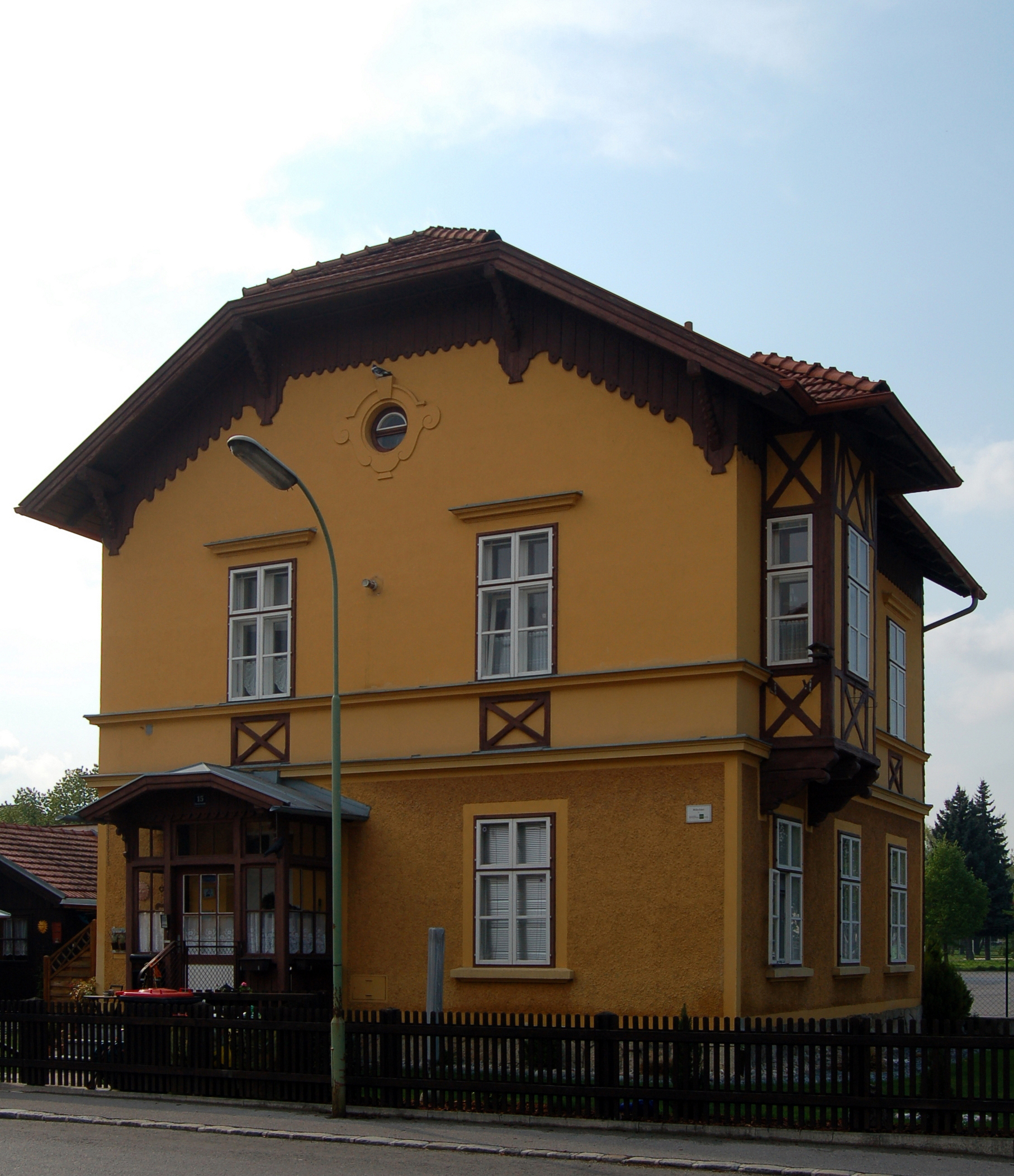 The building is part of the ensemble Wiedenbrunn, which for the major parts is a cultural heritage monument now.